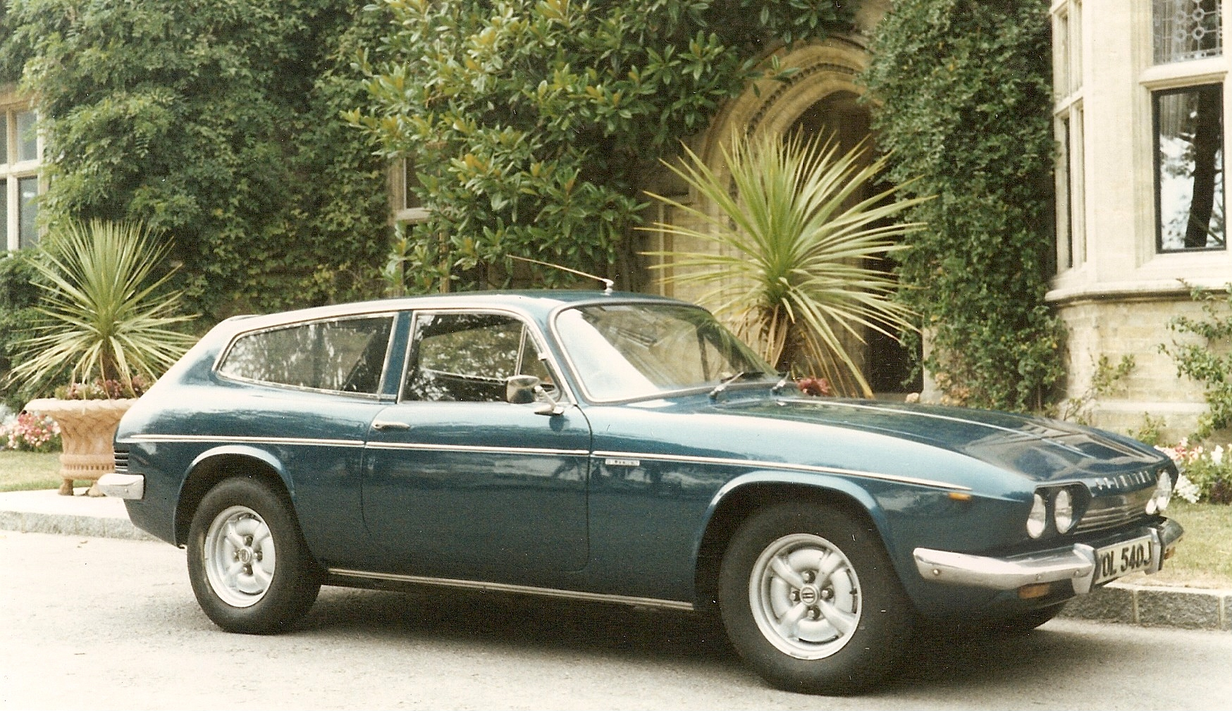 John Crosthwaite's Reliant Scimitar GTE (SE5)